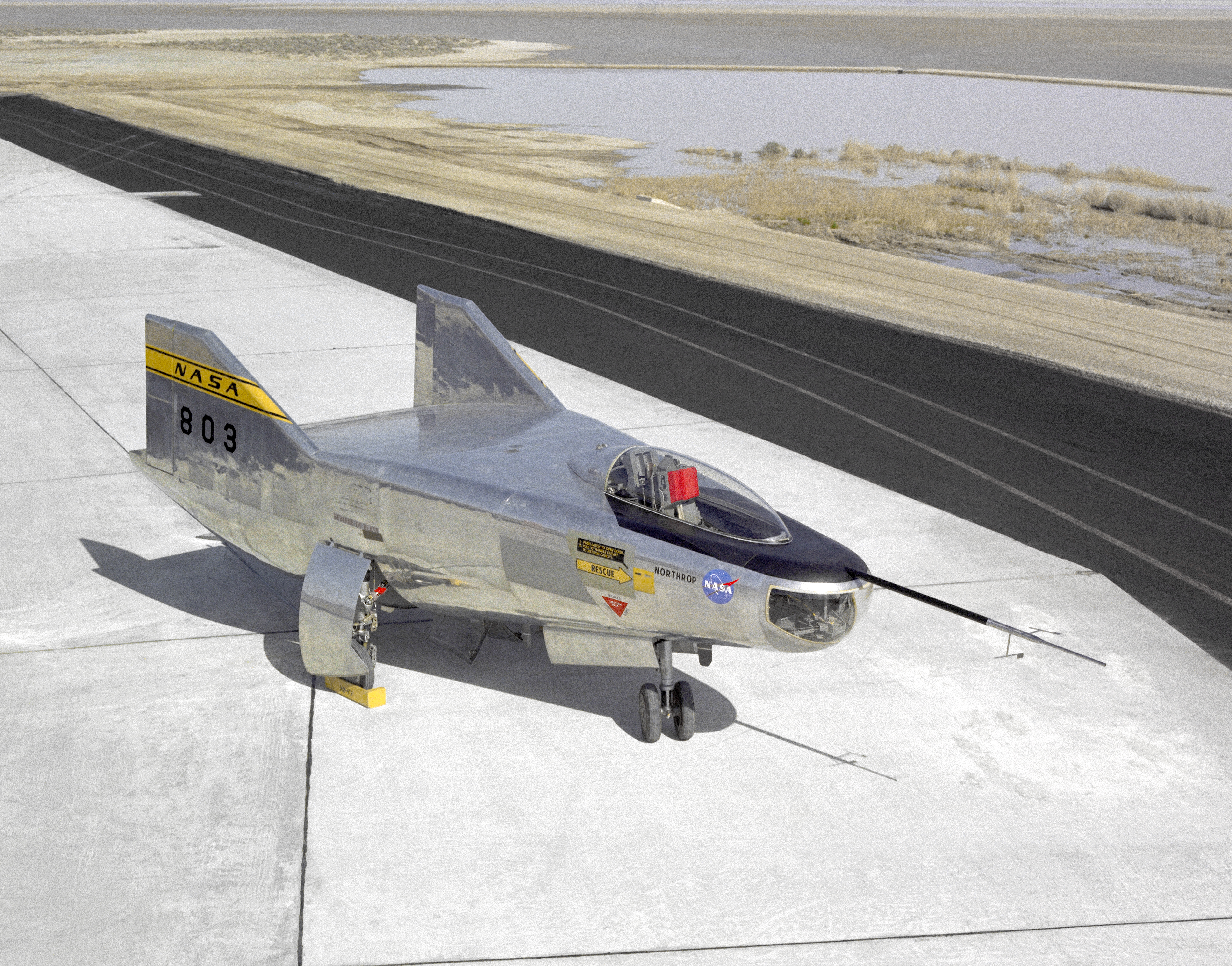 The M2-F2 Lifting Body is seen here on the ramp at the NASA Dryden Flight Research Center.